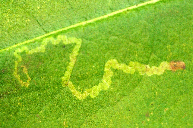 Chromatomyia horticola from Commanster, Belgian High Ardennes .